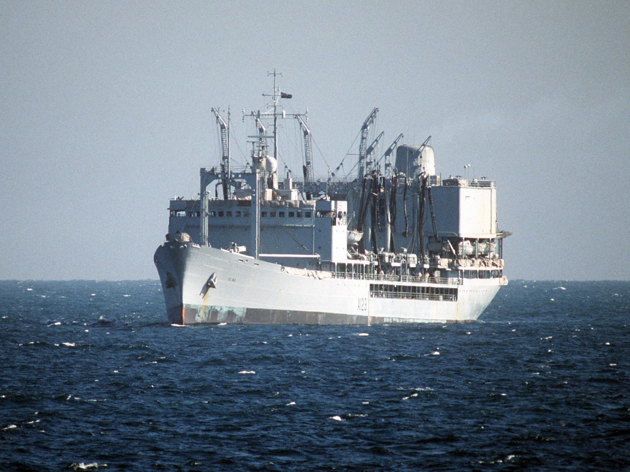 The British large fleet tanker RFA Olna (A123) underway as part of a multinational force stationed in the Persian Gulf region. As forces built up in the Persian Gulf, Olna joined the British task force on station. Olna arrived in August 1990, shortly after Iraq invaded Kuwait, and apart from a short maintenance period in Singapore was on station for the whole duration of the conflict. Olna operated further north than any other tanker as the U.S. Navy was wary of mines after two ships had been severely damaged.